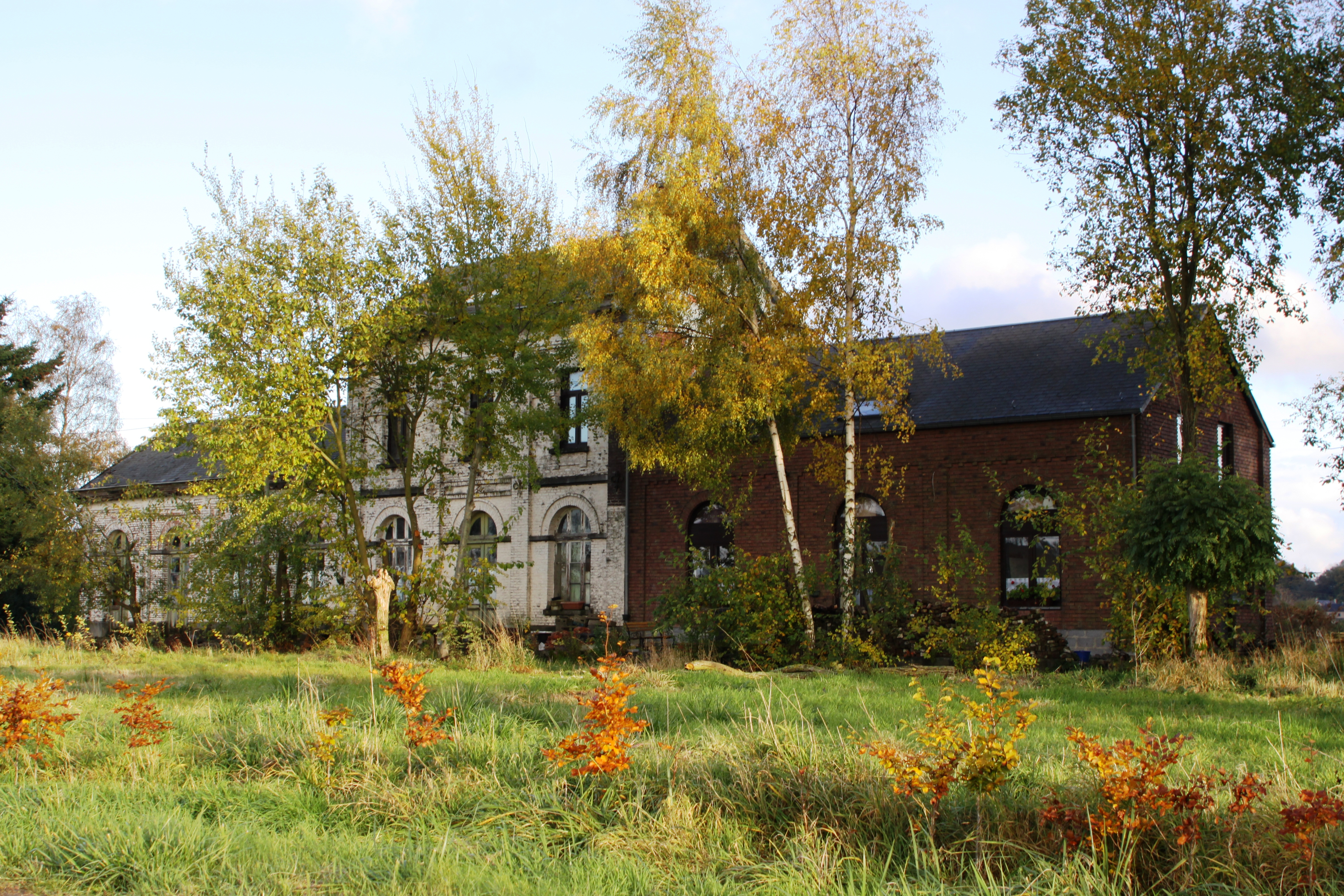 Old Train station at Stave on the SNCB line 136A